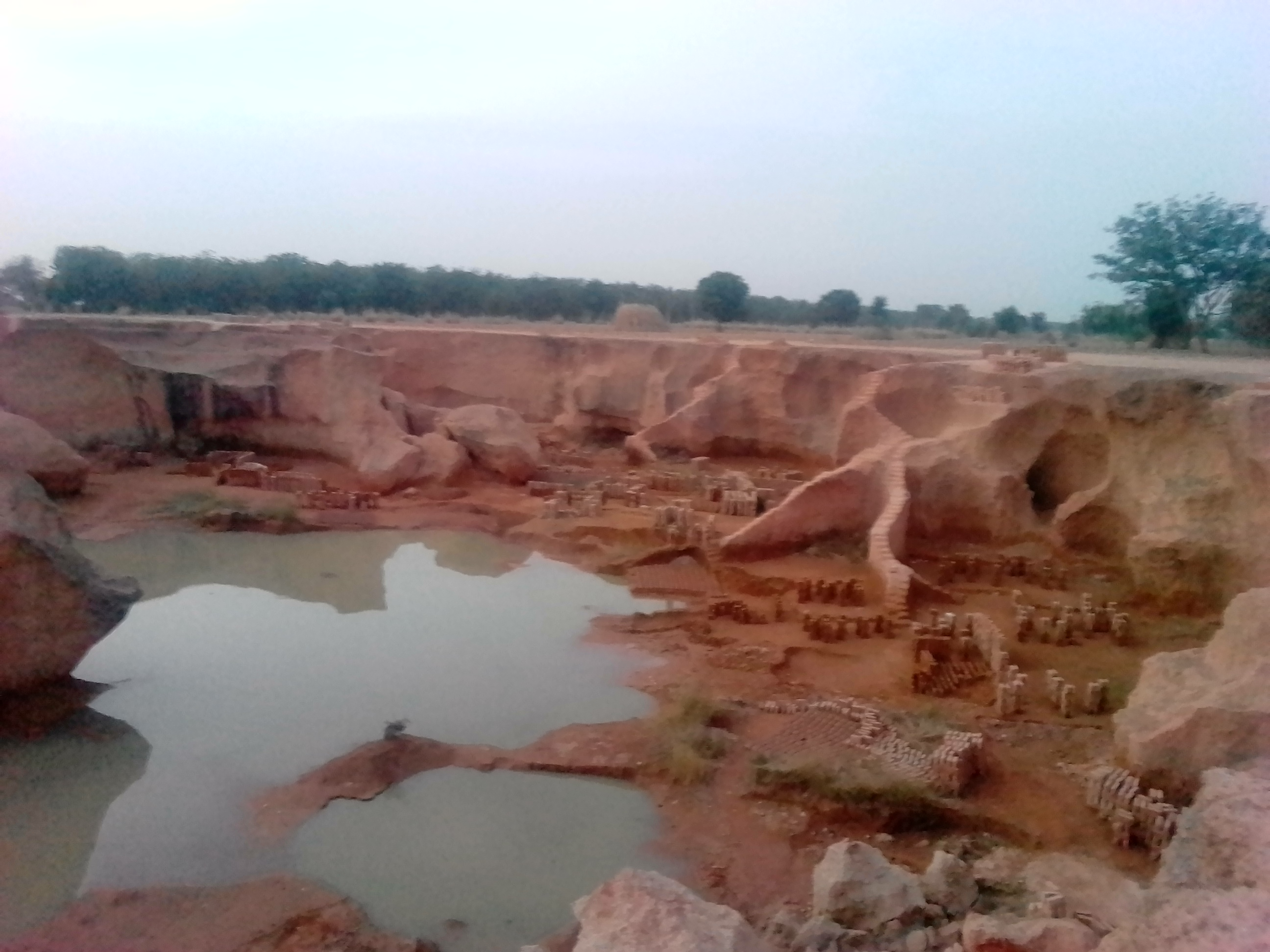 Ramin bulo is a popular tradition mud block making ditch popular around rural parts on Northern Nigeria. It starts as a small site for mud digging for block molding and then over decades turn into large ditches. it continues until water bed is reached then the site is changed for another one. This is an image with the theme "Play" from: Nigeria